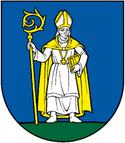 Šurianky blazon